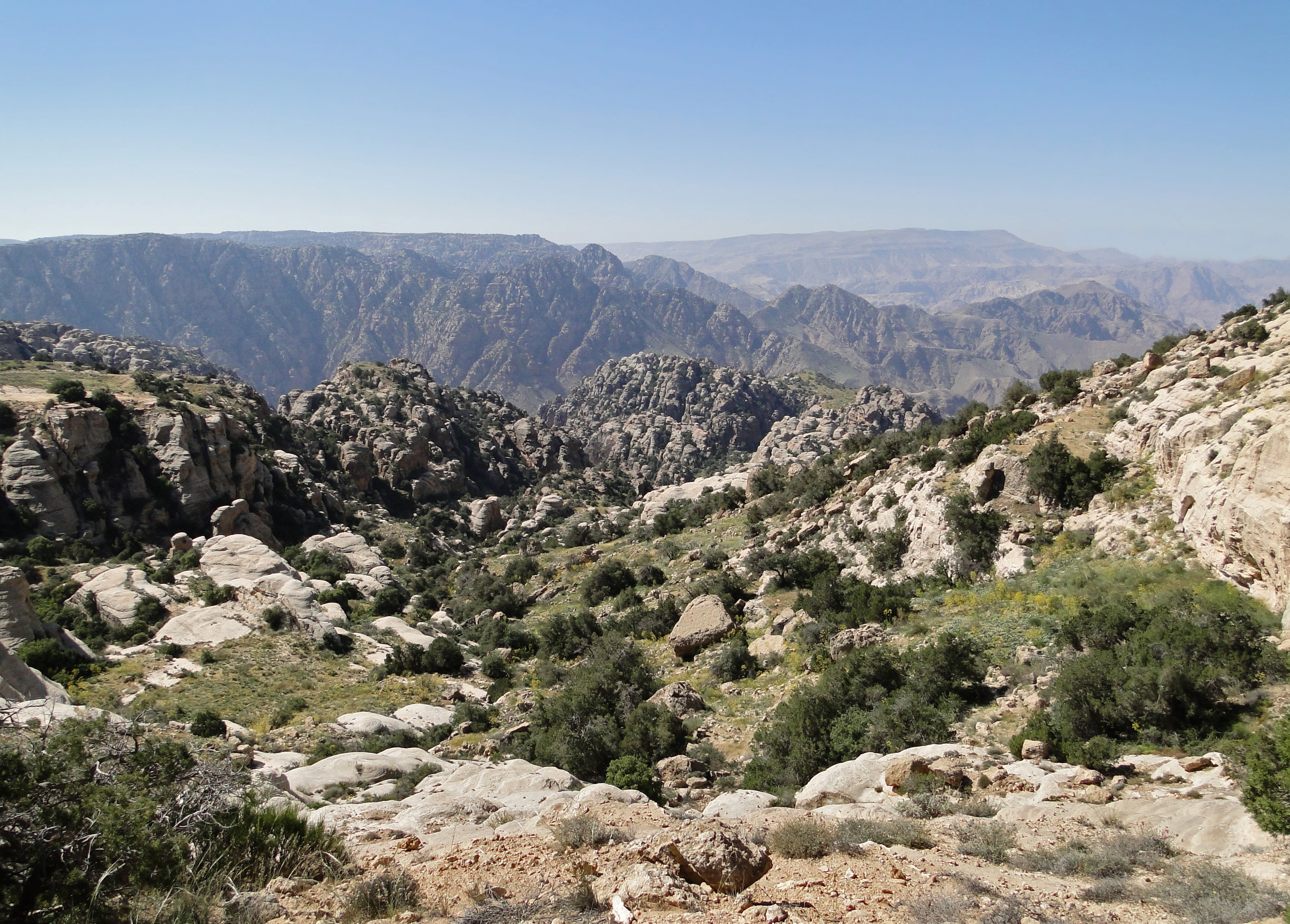 Landscape of Dana Biosphere Reserve, Jordan